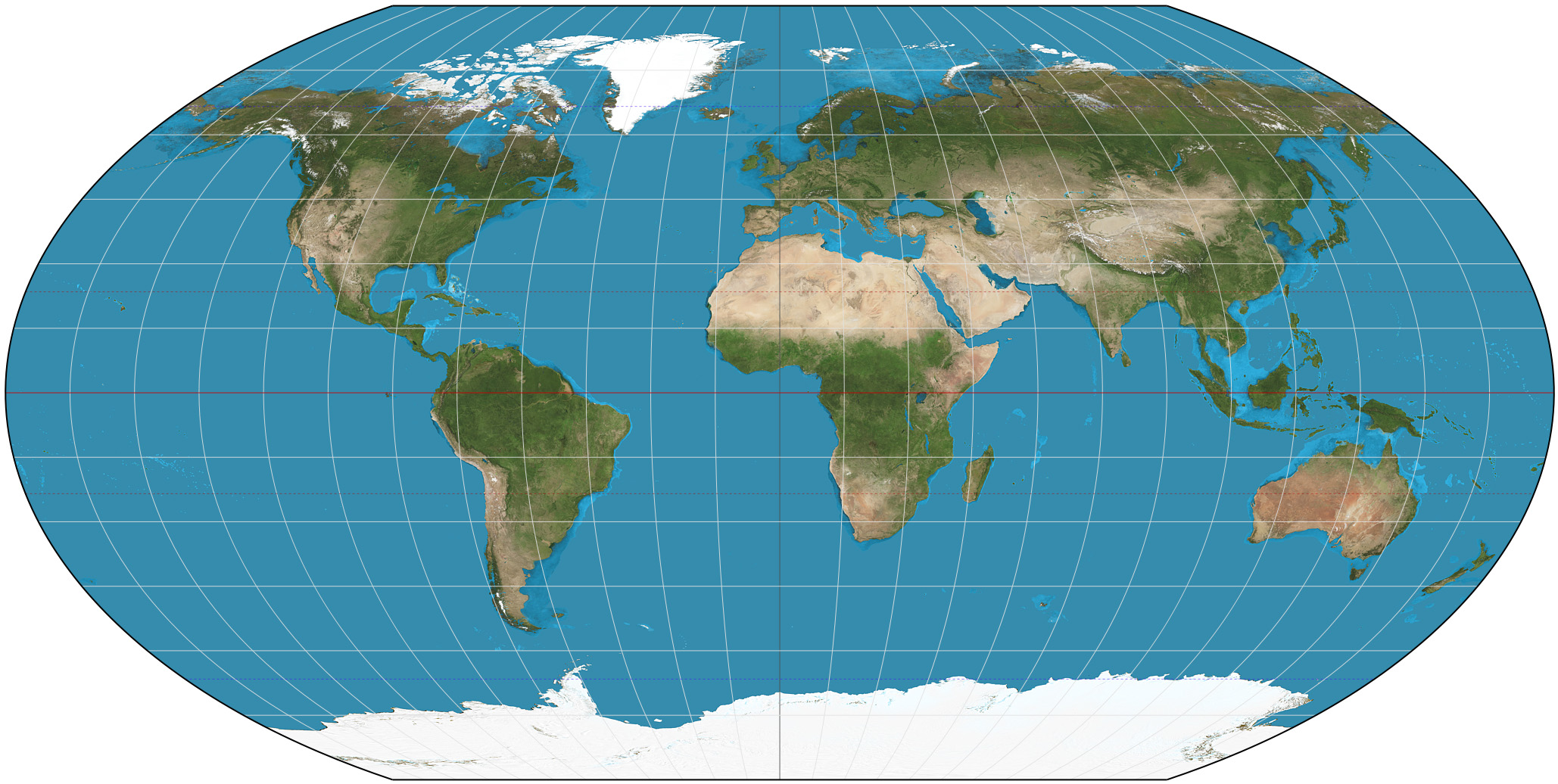 The world on Wagner VI projection. 15° graticule. Imagery is a derivative of NASA’s Blue Marble summer month composite with oceans lightened to enhance legibility and contrast. Image created with the Geocart map projection software.